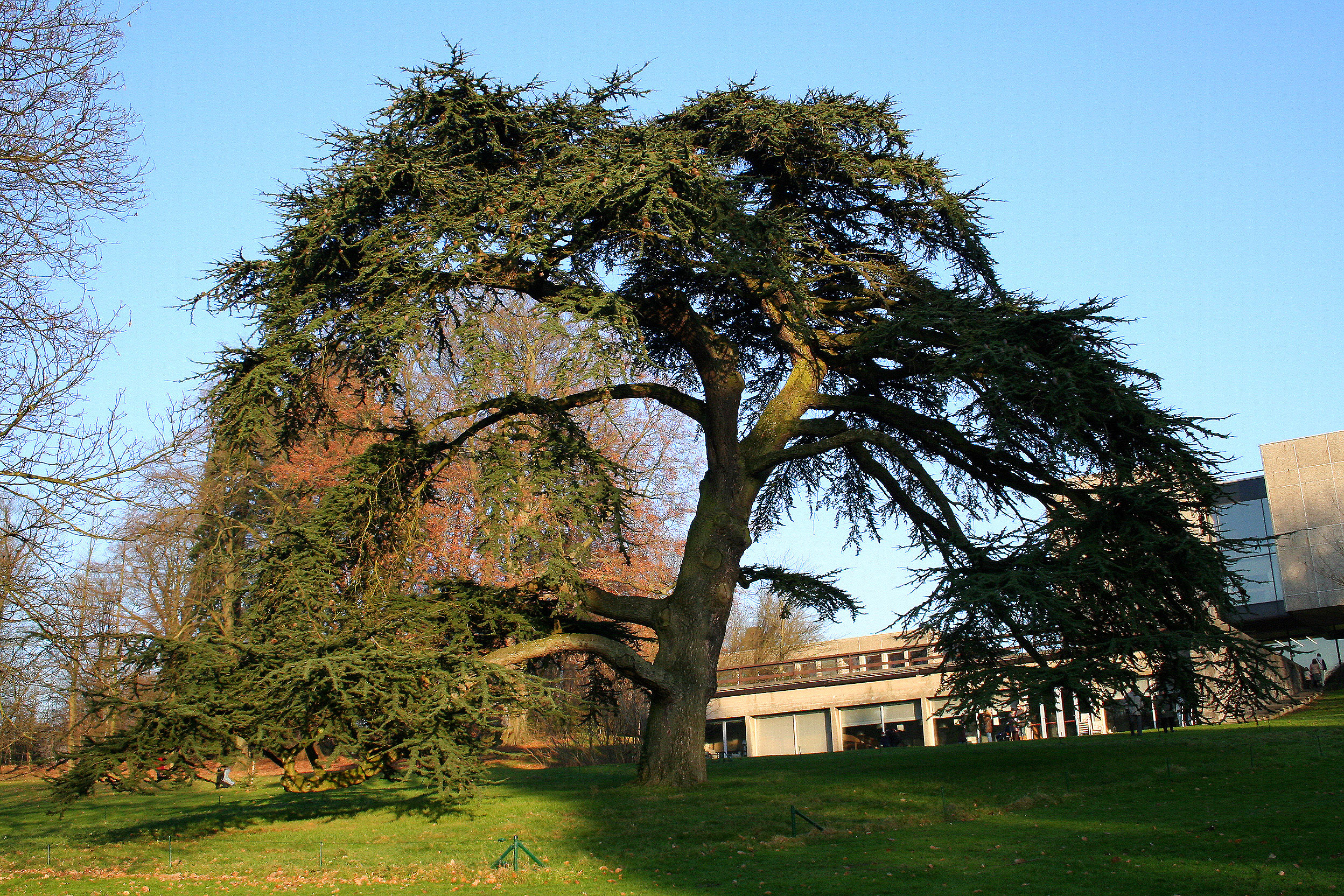 Morlanwelz-Mariemont (Belgium) - The park (arboretum) and the museum of Mariemont - Lebanon Cedar.